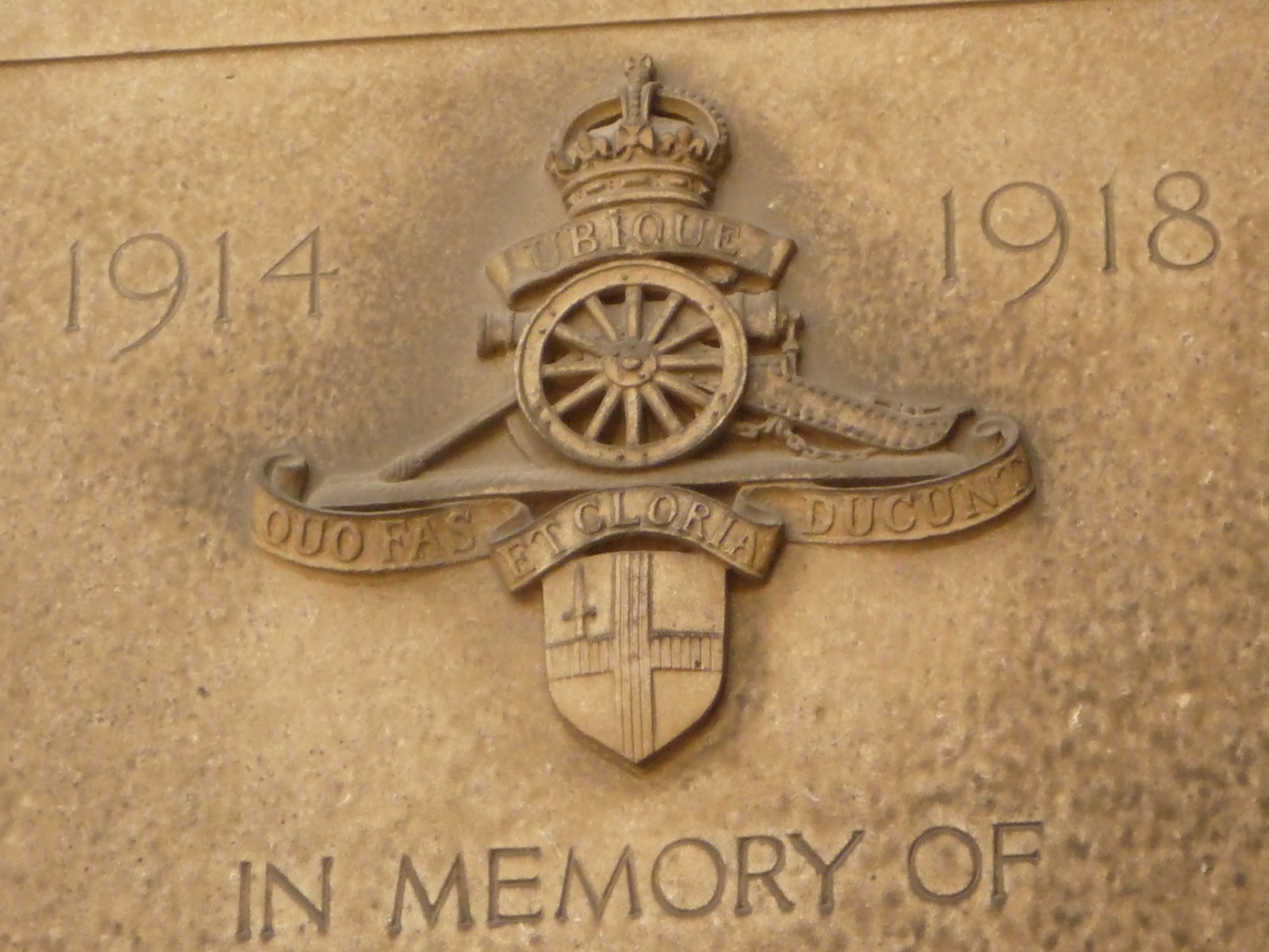 Detail of the badge on the 1st London Artillery's memorial plaque at St Lawrence Jewry church, depicting the Royal Artillery badge above the shield of the City of London.